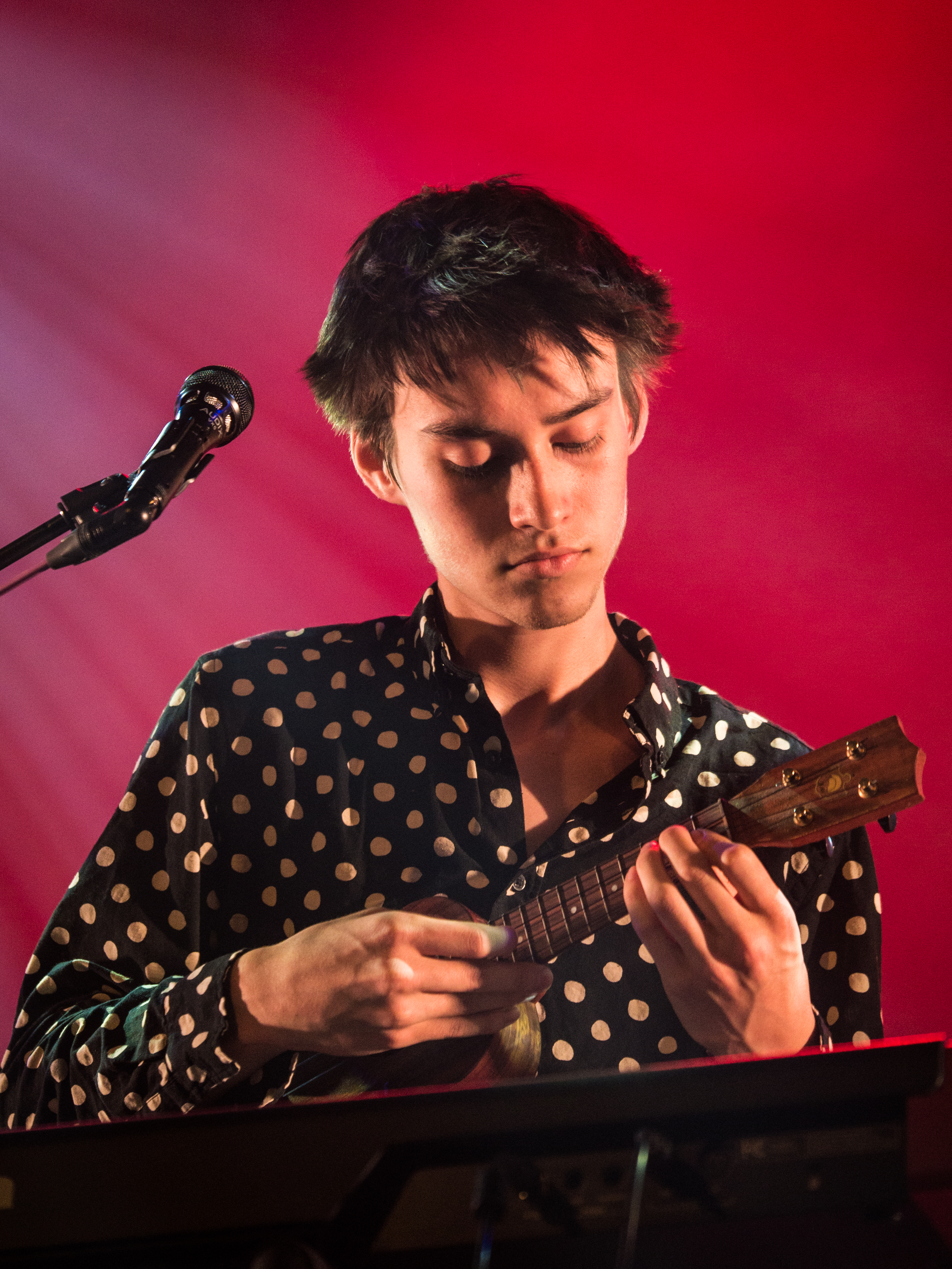 British musician Jacob Collier at the Moers Festival 2016